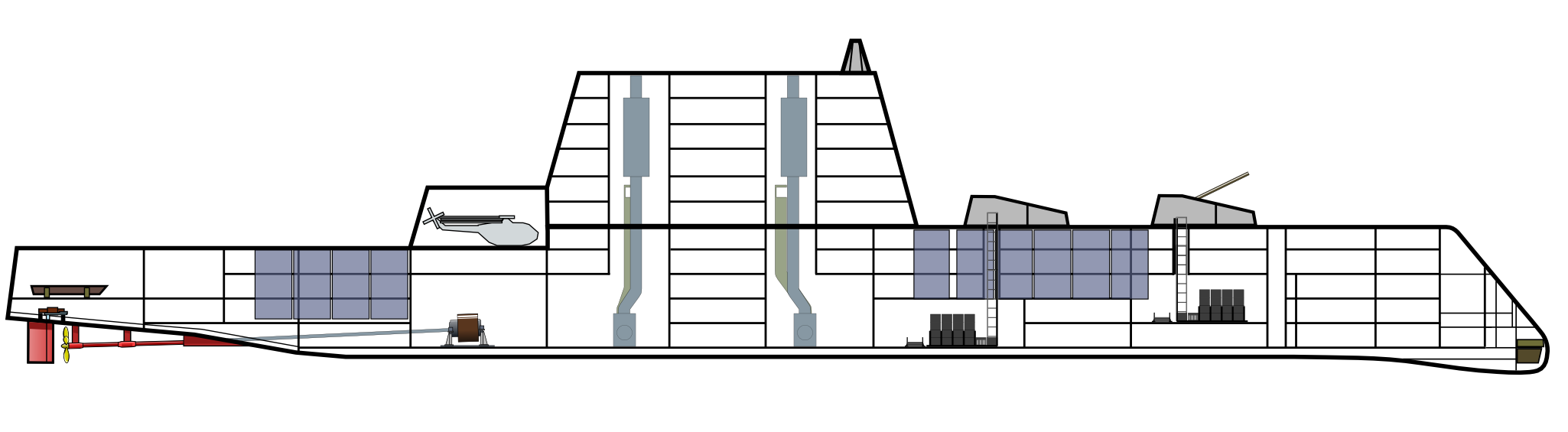 Zumwalt class destroyer (side view, inside)